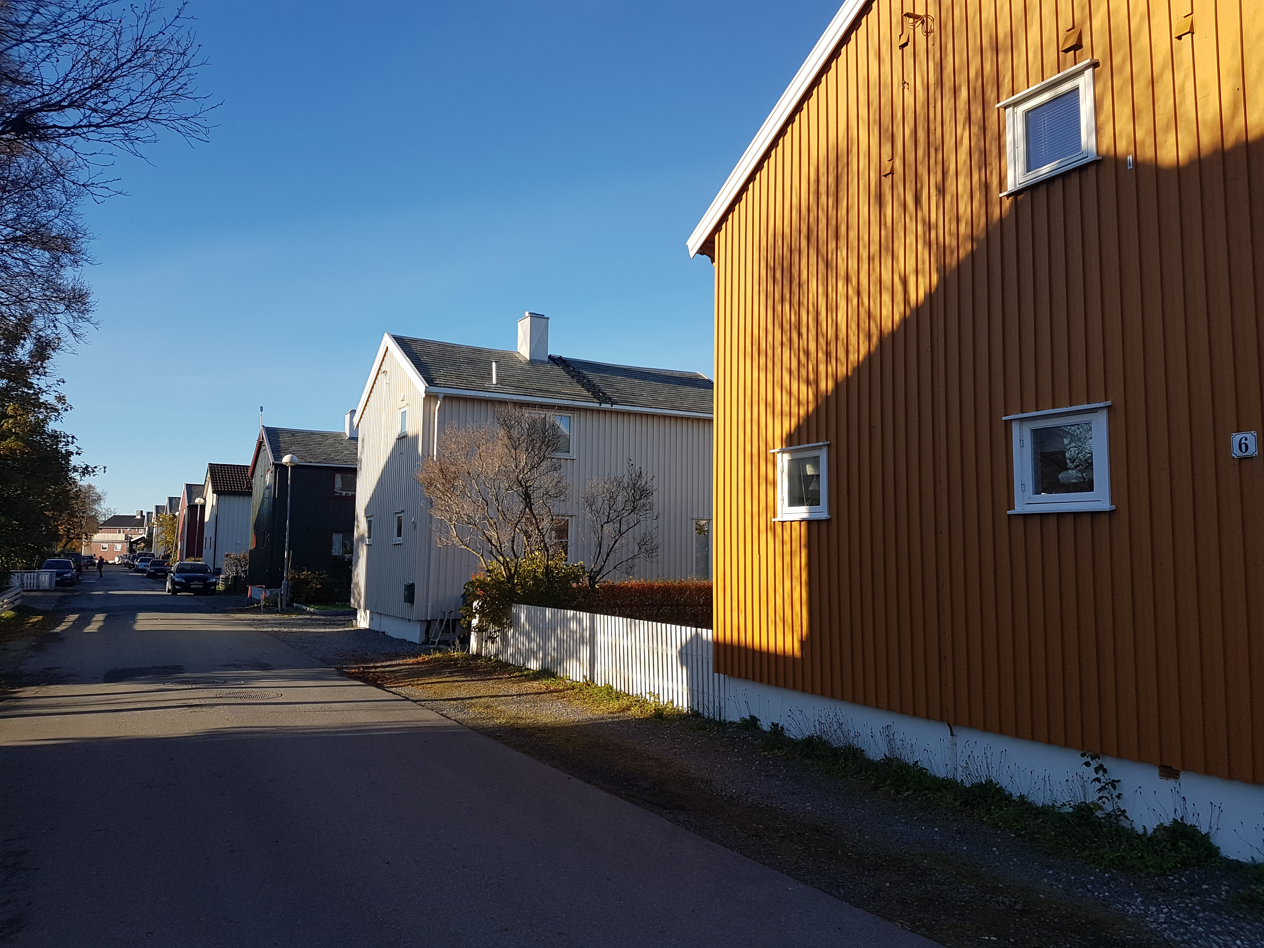 The Swedish City in Bodø in 2016. Even today one can see the pragmatic and functionalistic construction of the houses. On the house on the right is attached an official sign. The inscription says: THE SWEDISCH CITY Built 1941 Standard house Norway The houses were given as emergency aid by the Swedish Red Cross after the bombing on 27. May 1940 Architects D. Morseth and G.Ø. Jørgen